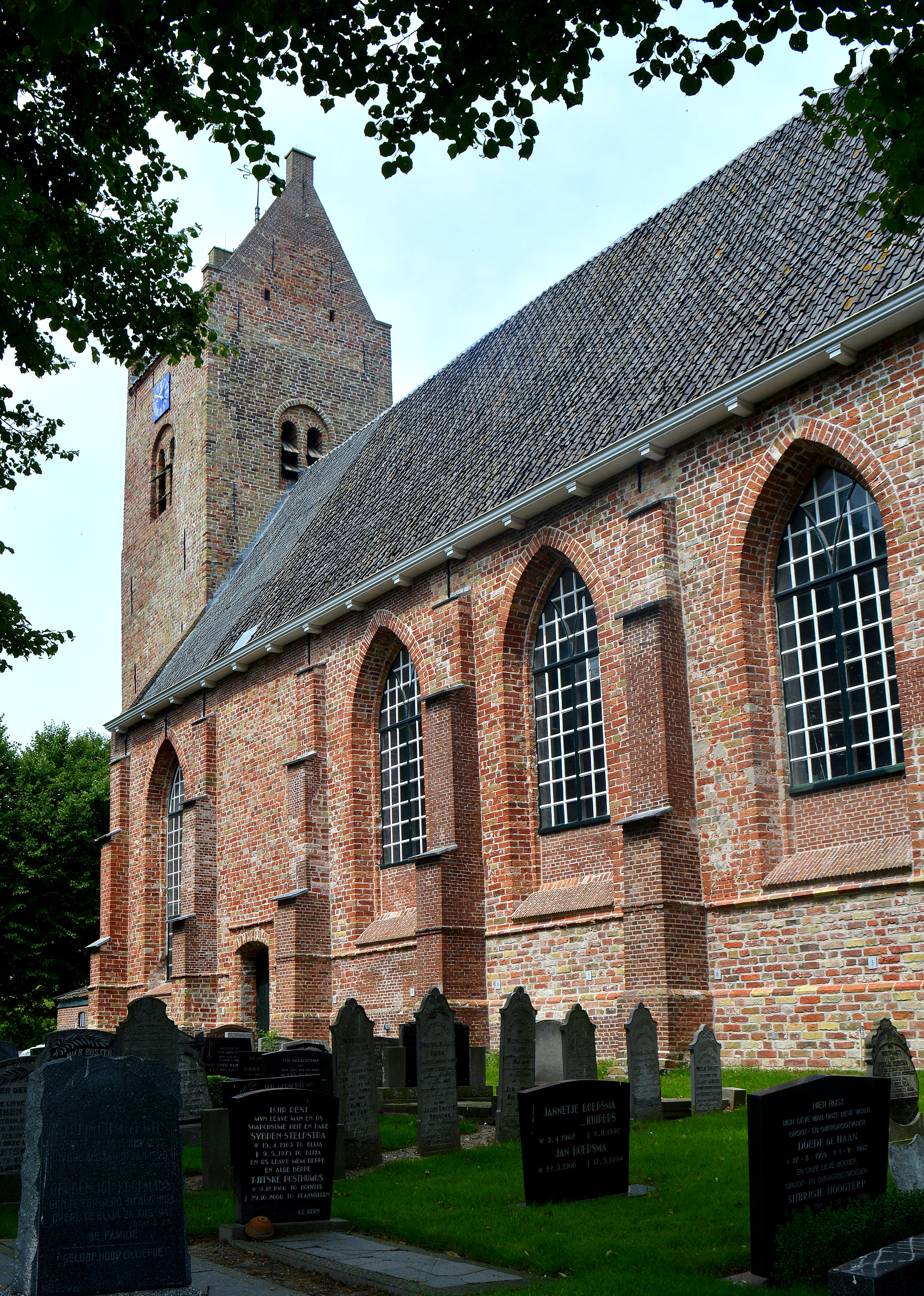 Blije, Saint Nicholas Church